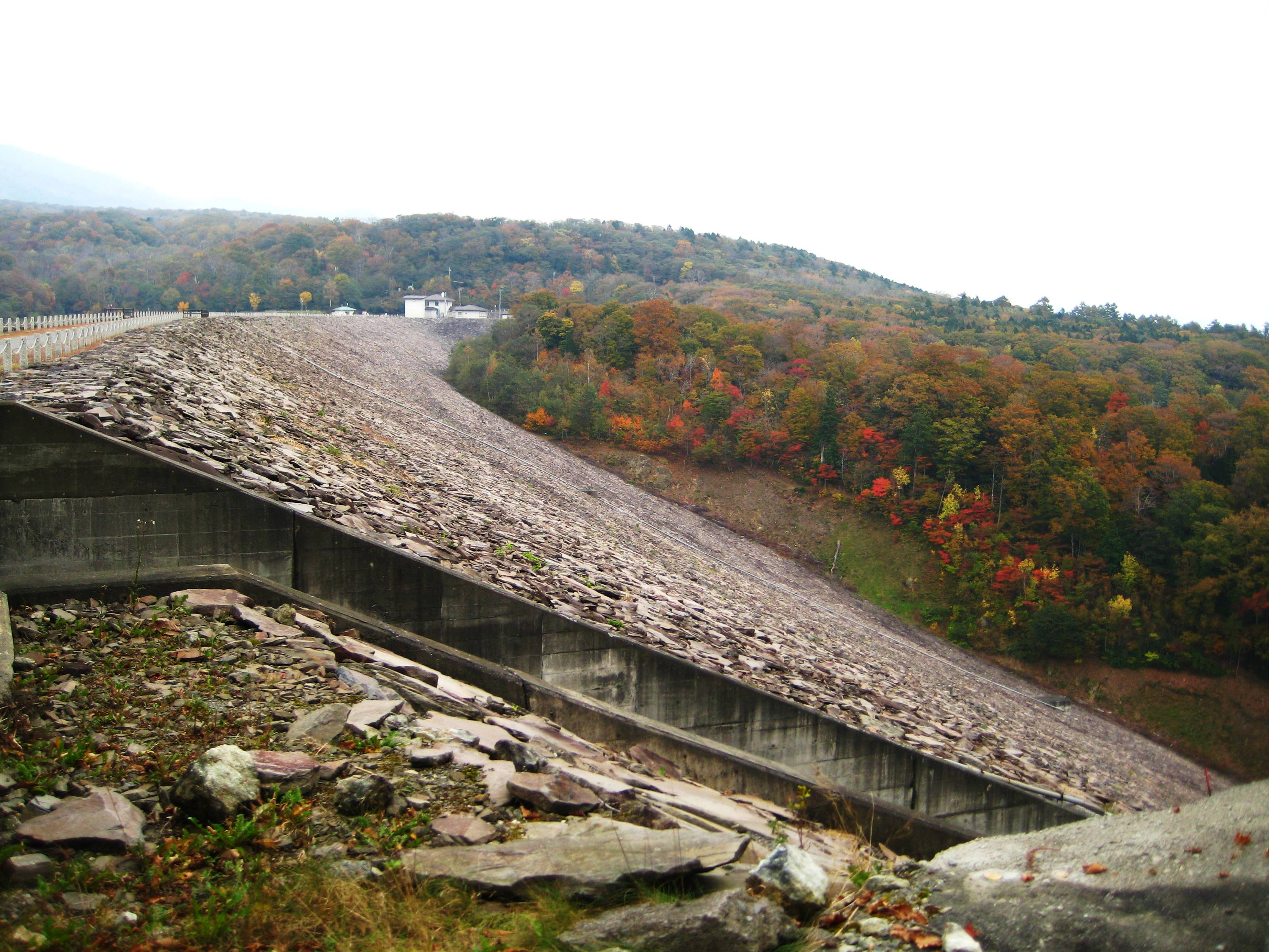 Tambara Dam.